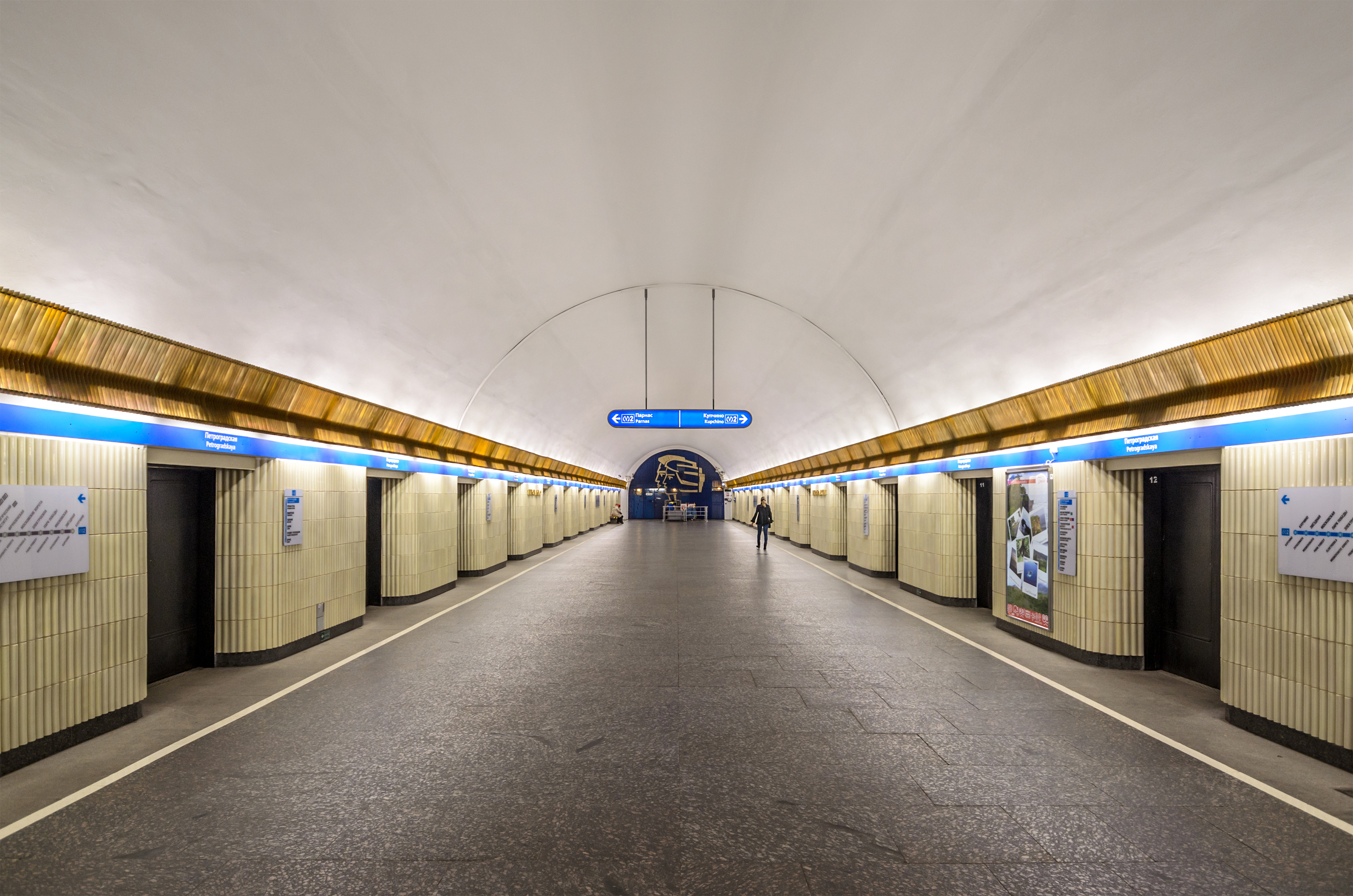 Petrogradskaya station of Saint Petersburg Subway